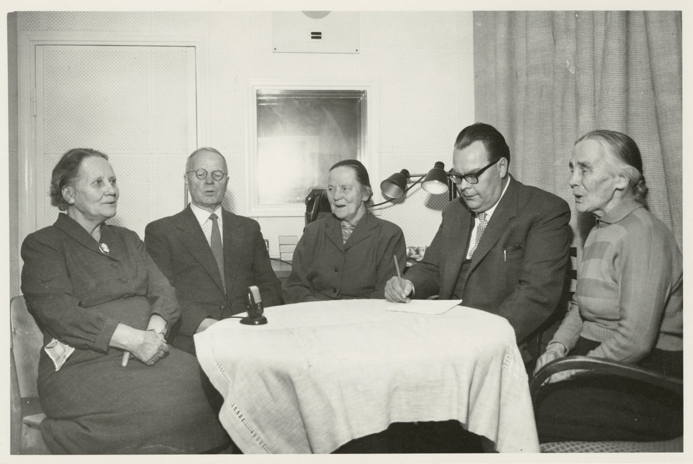 Photograph of a session where folklore from Uusikirkko (VPL) was collected in Helsinki at the folklore archive of Suomalaisen Kirjallisuuden Seura. From left to right: Ulla Toivonen, Maija Rokka, Konsta Sirkiä, Lauri Simonsuuri, Tilda Sirkiä.